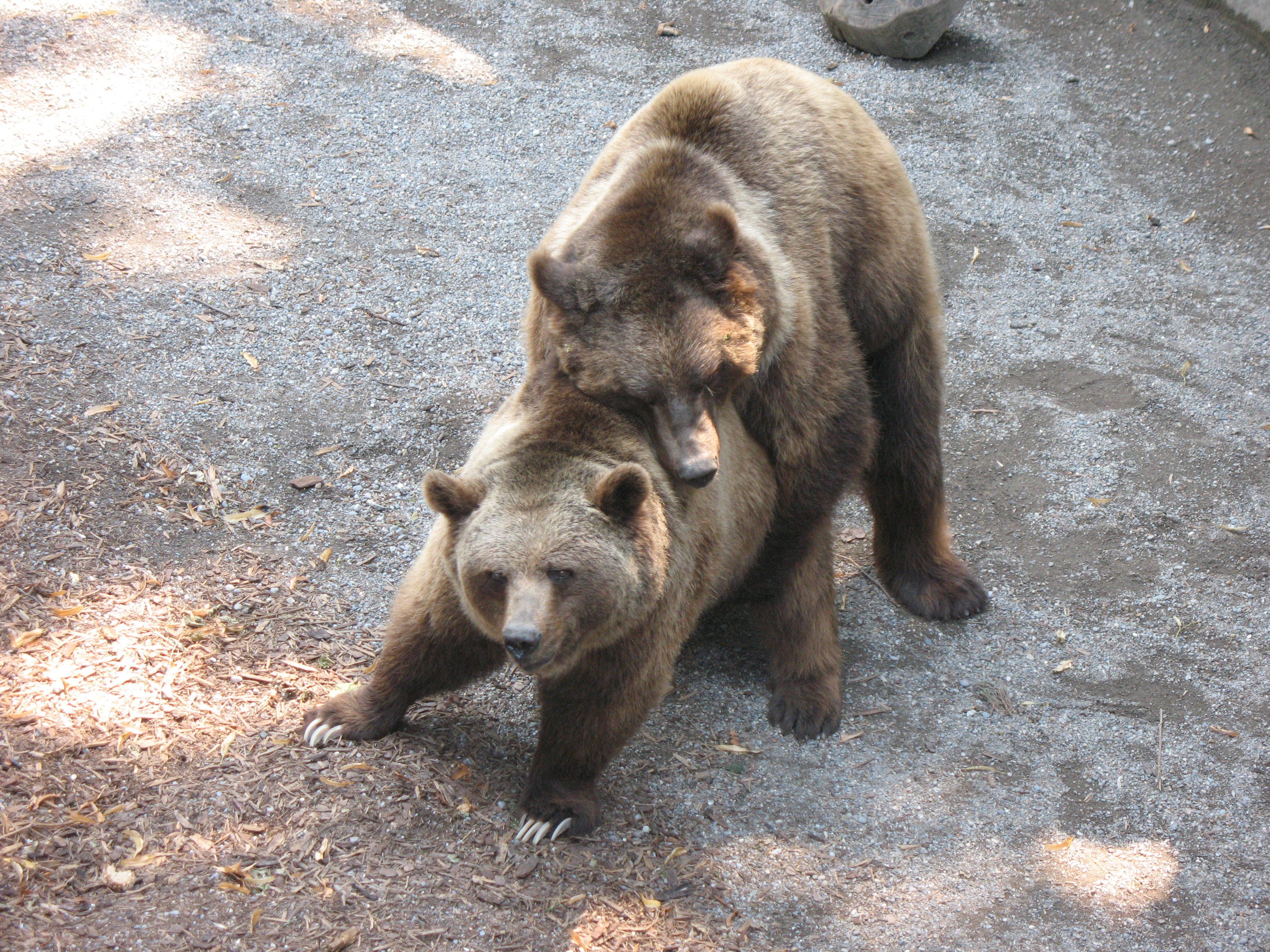 A pair of mating brown bears (Ursus arctos) in the Bärengraben, Bern, Switzerland